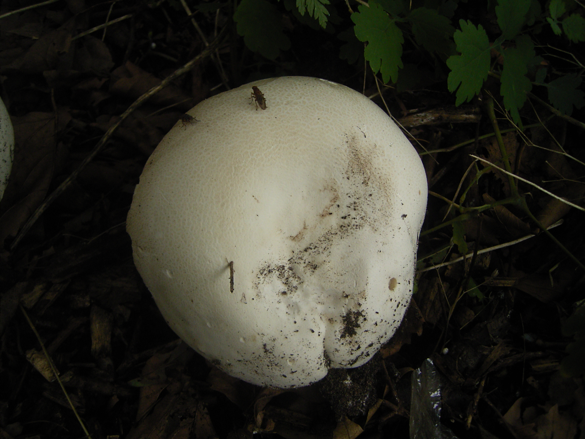 This photo shows a fly on Langermannia gigantea